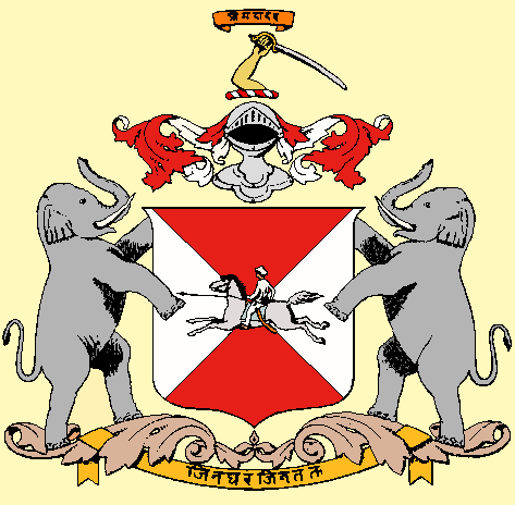 Baroda State Coat of arms. Arms: (Tenne) a horseman charging (Argent). Crest: A sword per fess, hilt on the sinister proper. Crown: The crown of Baroda. Supporters: Two elephants, in their trunks two indian maces in salti­re. Motto: In chief: sri mahadur; in base: jin ghar, jin takht.